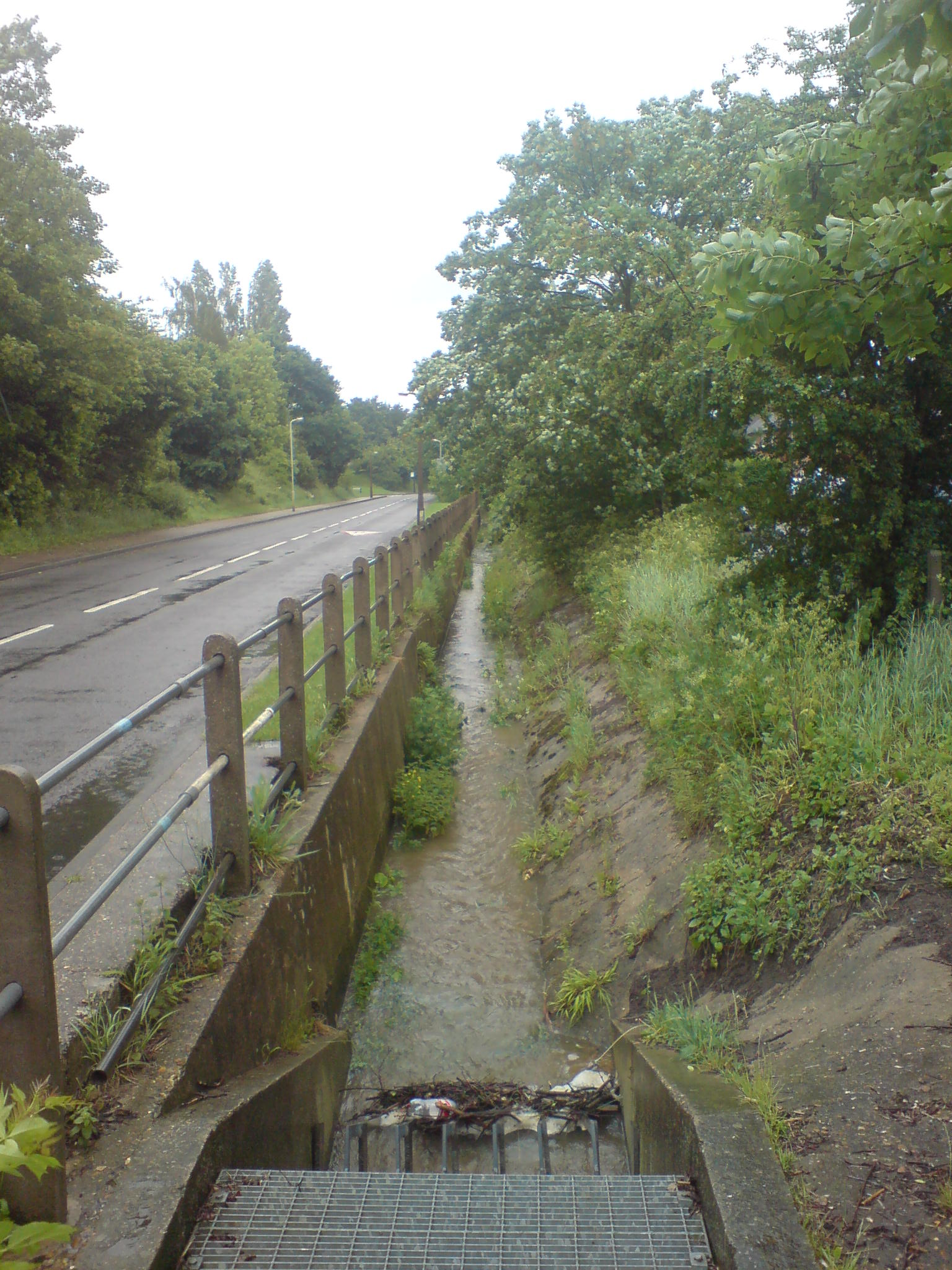 Bayford Brook ,Author: Jamsta